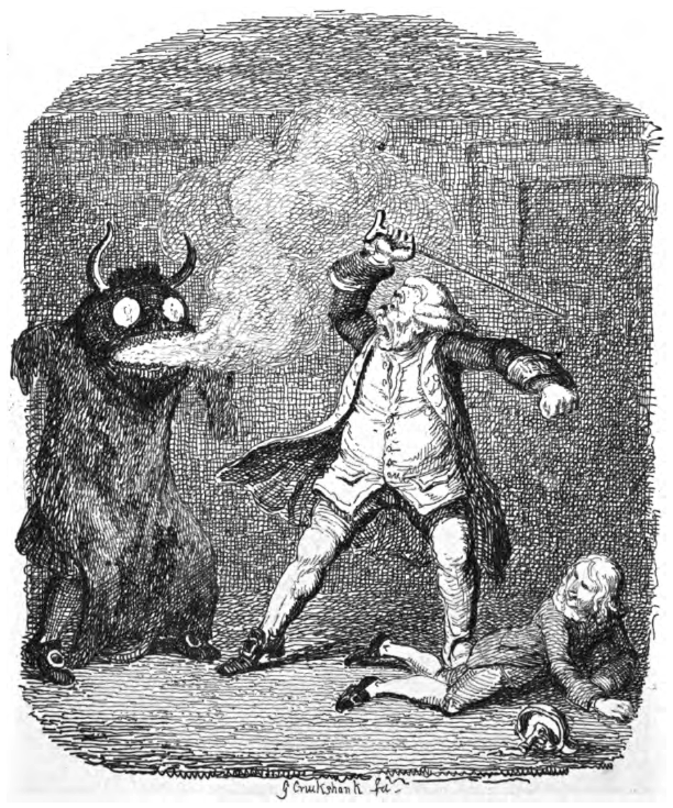 Davy Jones, sea devil described by Tobias Smollett in The adventures of Peregrine Pickle, London 1751, illustrated by George Cruikshank in 1832.